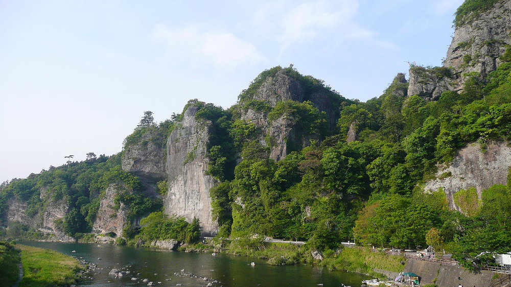 Kyōshūhō, Yaba-kei